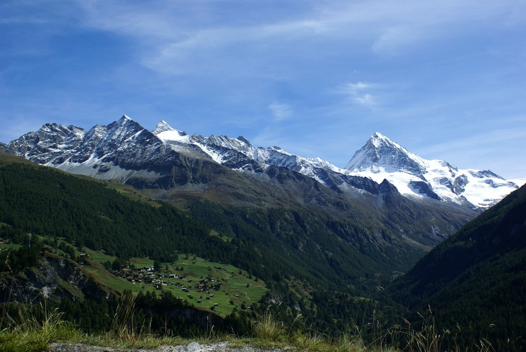 Dent Blanche (4350m) above the Val d'Hérens, Valais